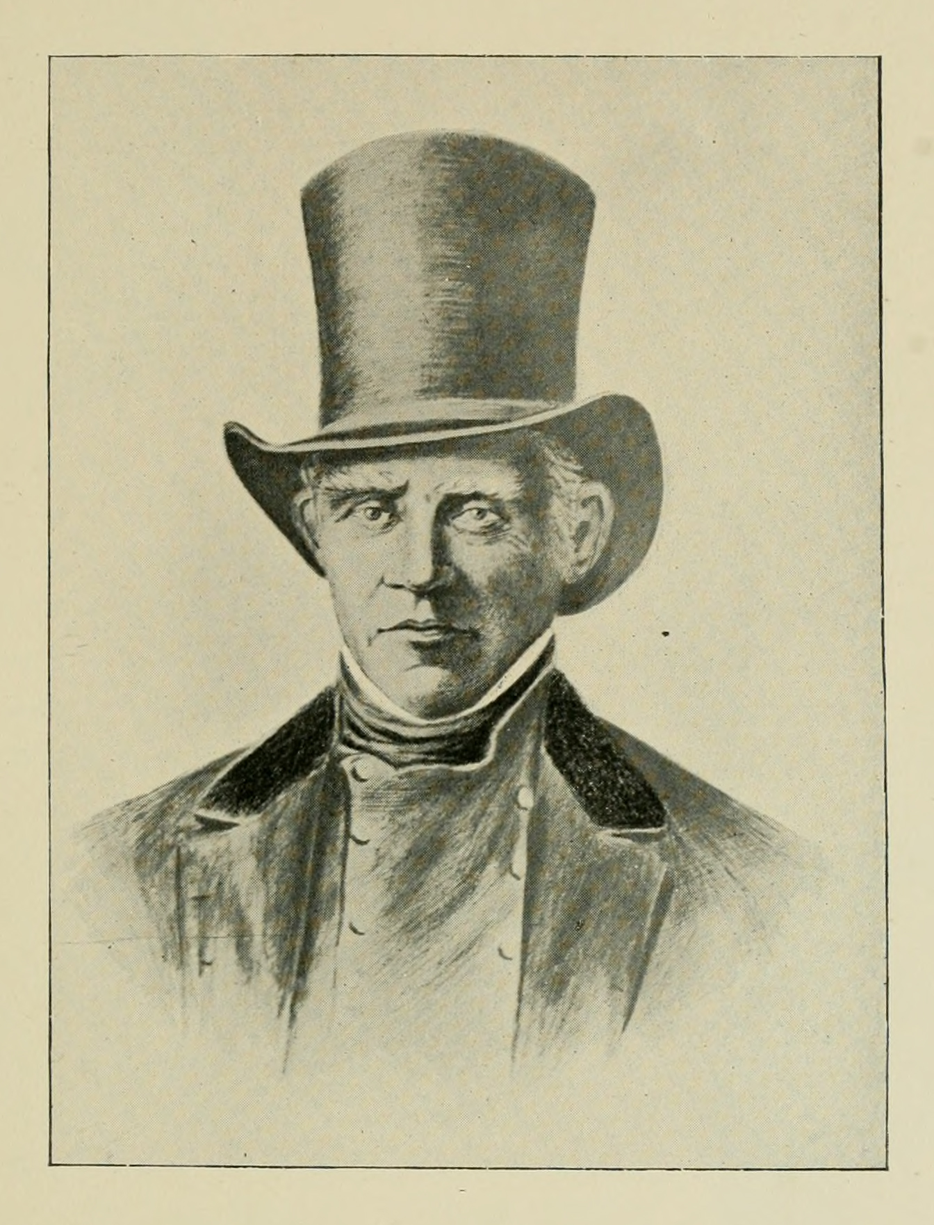 Judah Touro, Benefactor - Hebrew Education Society Touro Hall, Tenth and Carpenter Streets, Philadelphia PA (1899) Photograph donated to the Society by Rev. D. Baruch